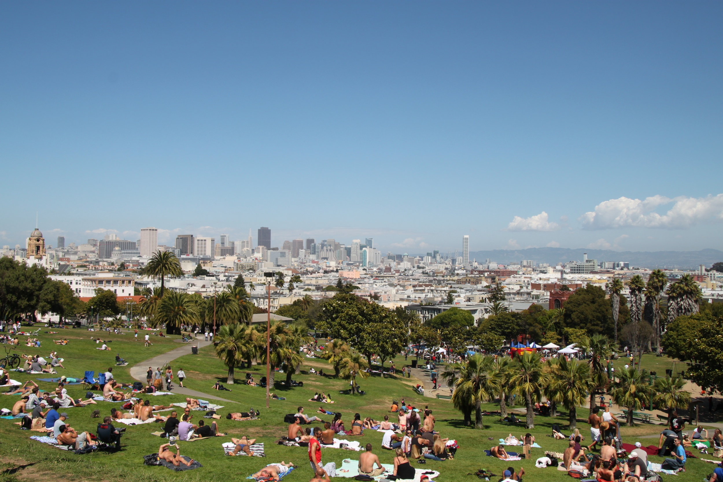 A day in the park... Dolores Park — Mission District, San Francisco.